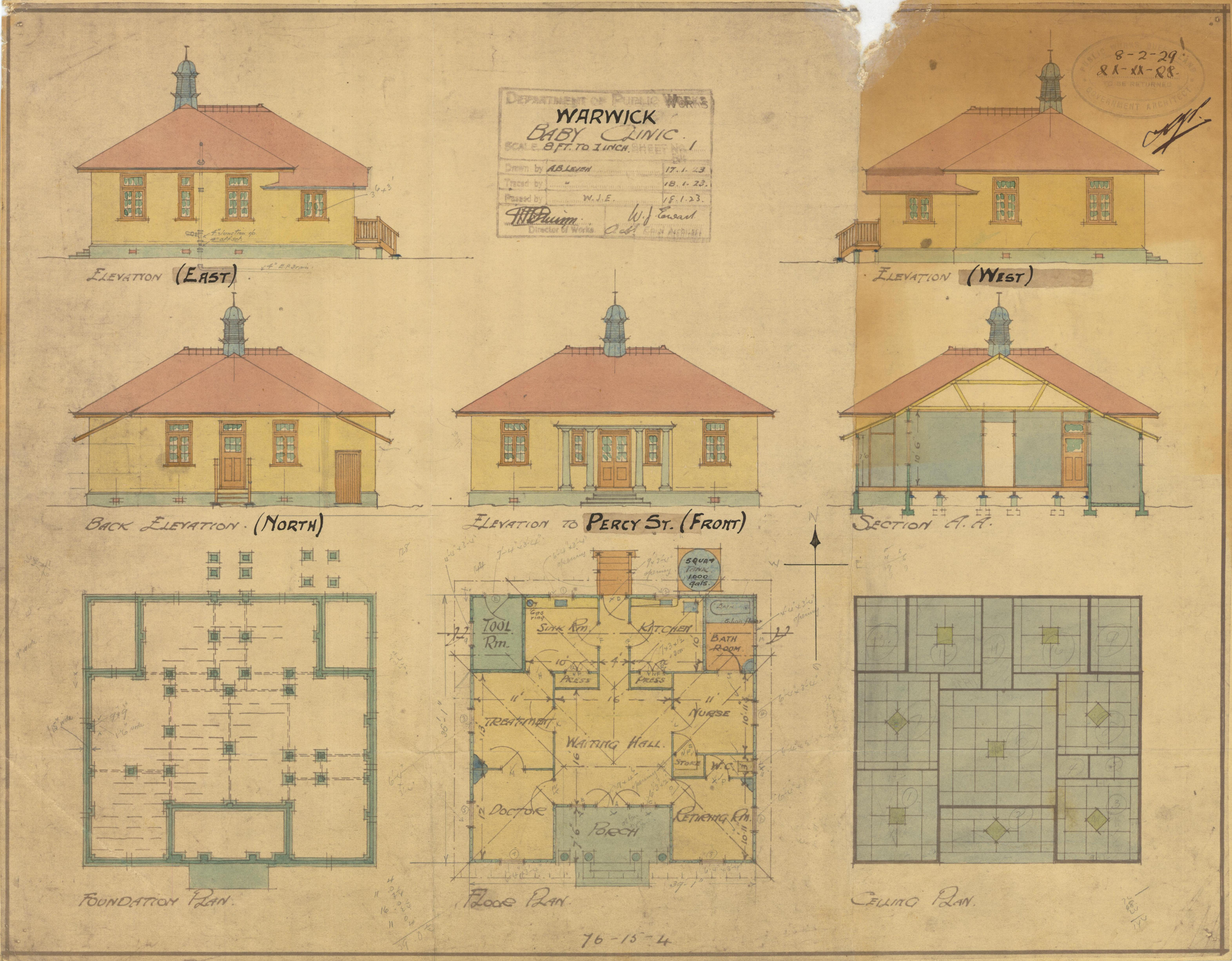 Plan of the Warwick Baby Clinic, 17 January 1923